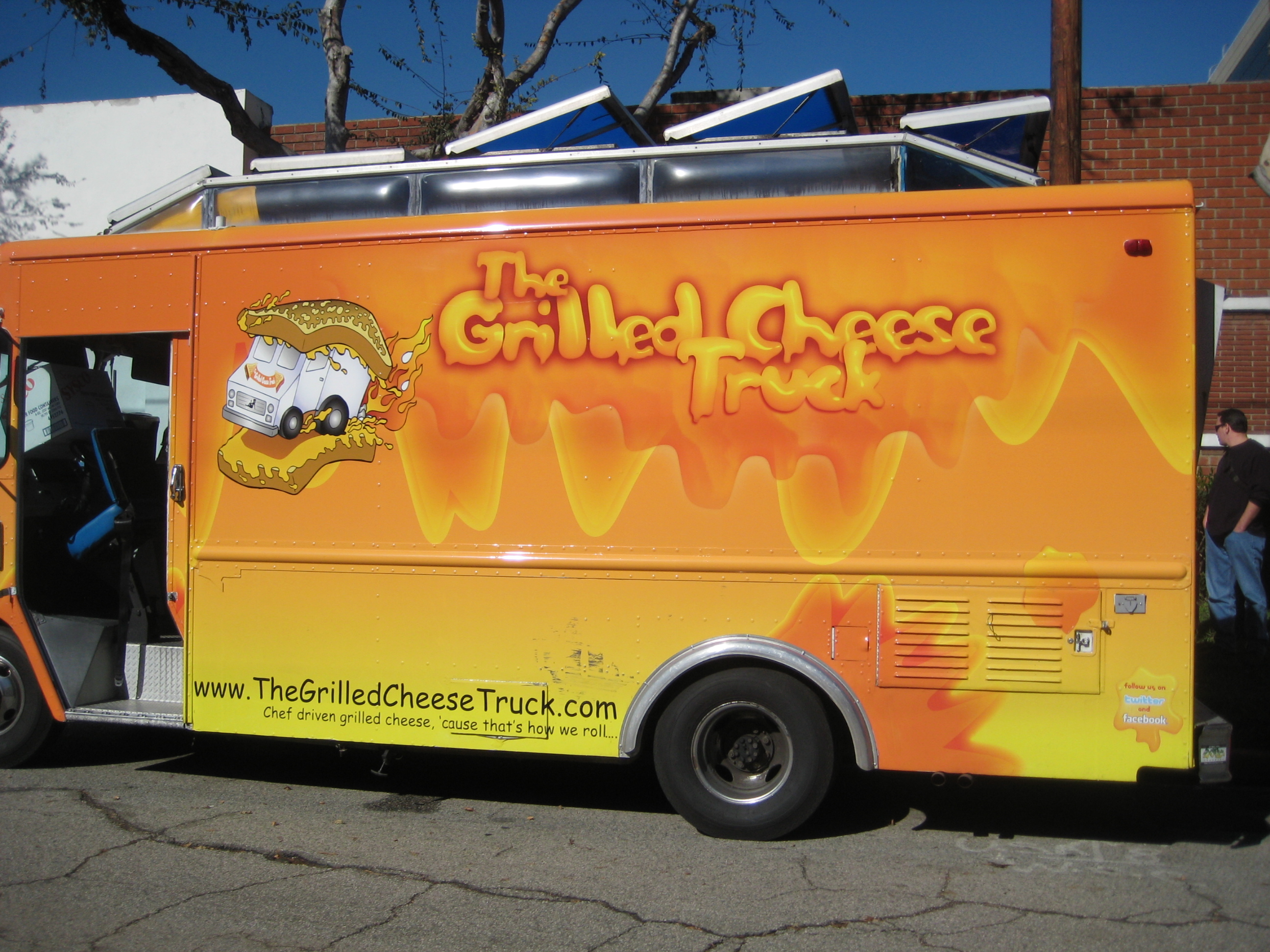 The Grilled Cheese Truck at the "Food Trucks for Haiti" benefit in West Los Angeles